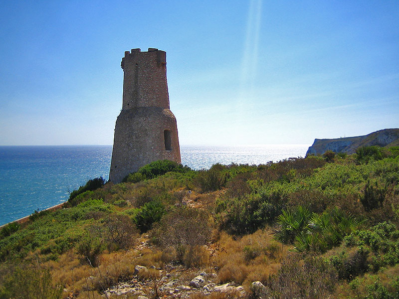 Torre de Gerro ("Jar tower"), Denia, county Marina Alta, Region of Valencia, Spain